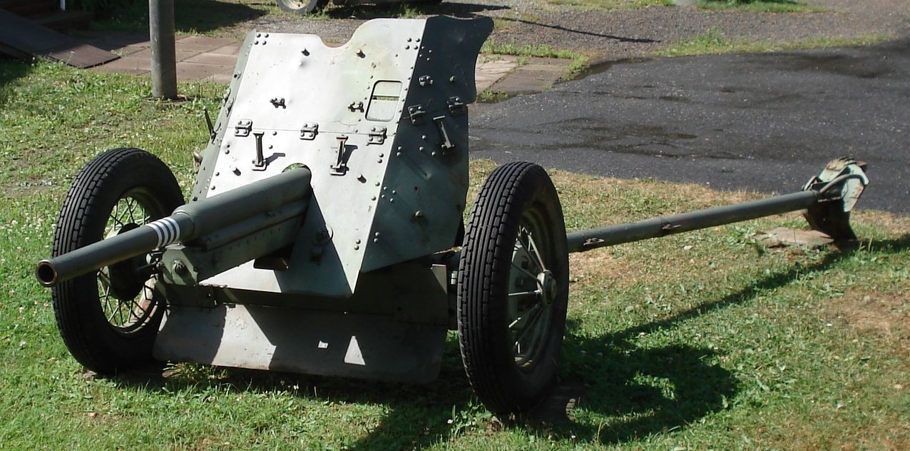 Soviet 45 mm anti-tank gun M1937, displayed in Finnish Tank Museum (Panssarimuseo) in Parola. Photo taken on July 14, 2006.